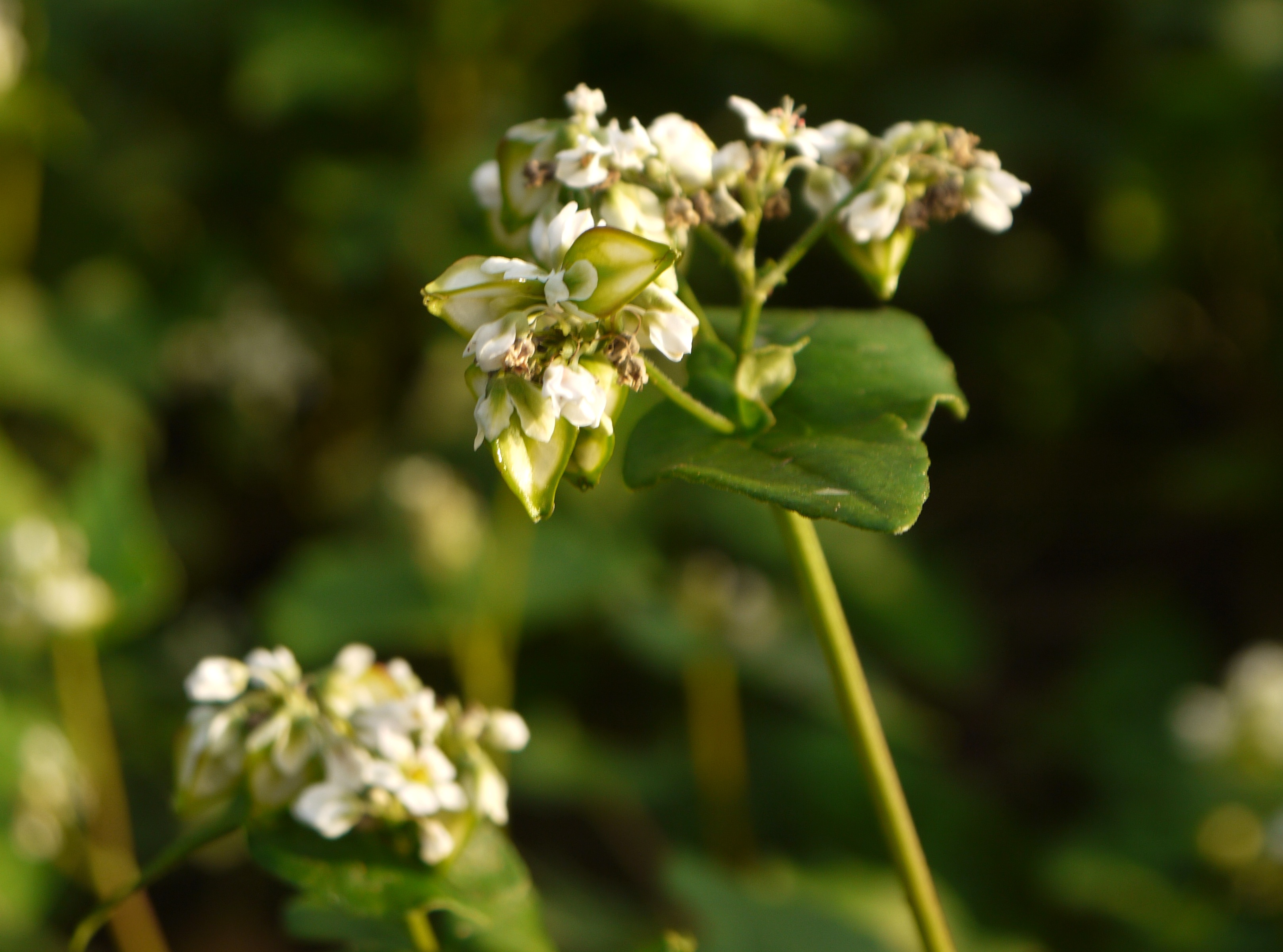 817 V300